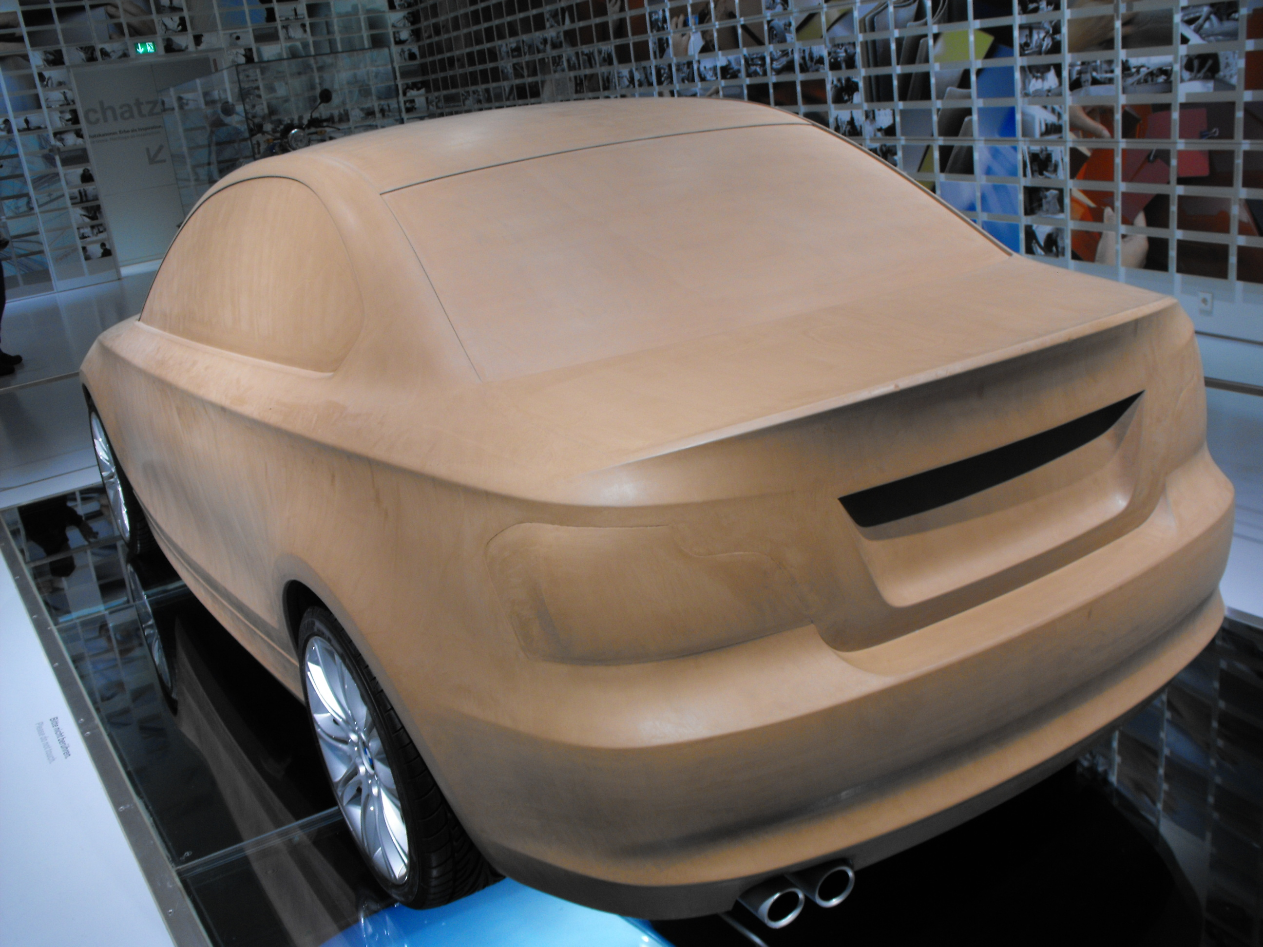 BMW 1 Series Coupé, clay model, BMW Museum, Munich,Germany.